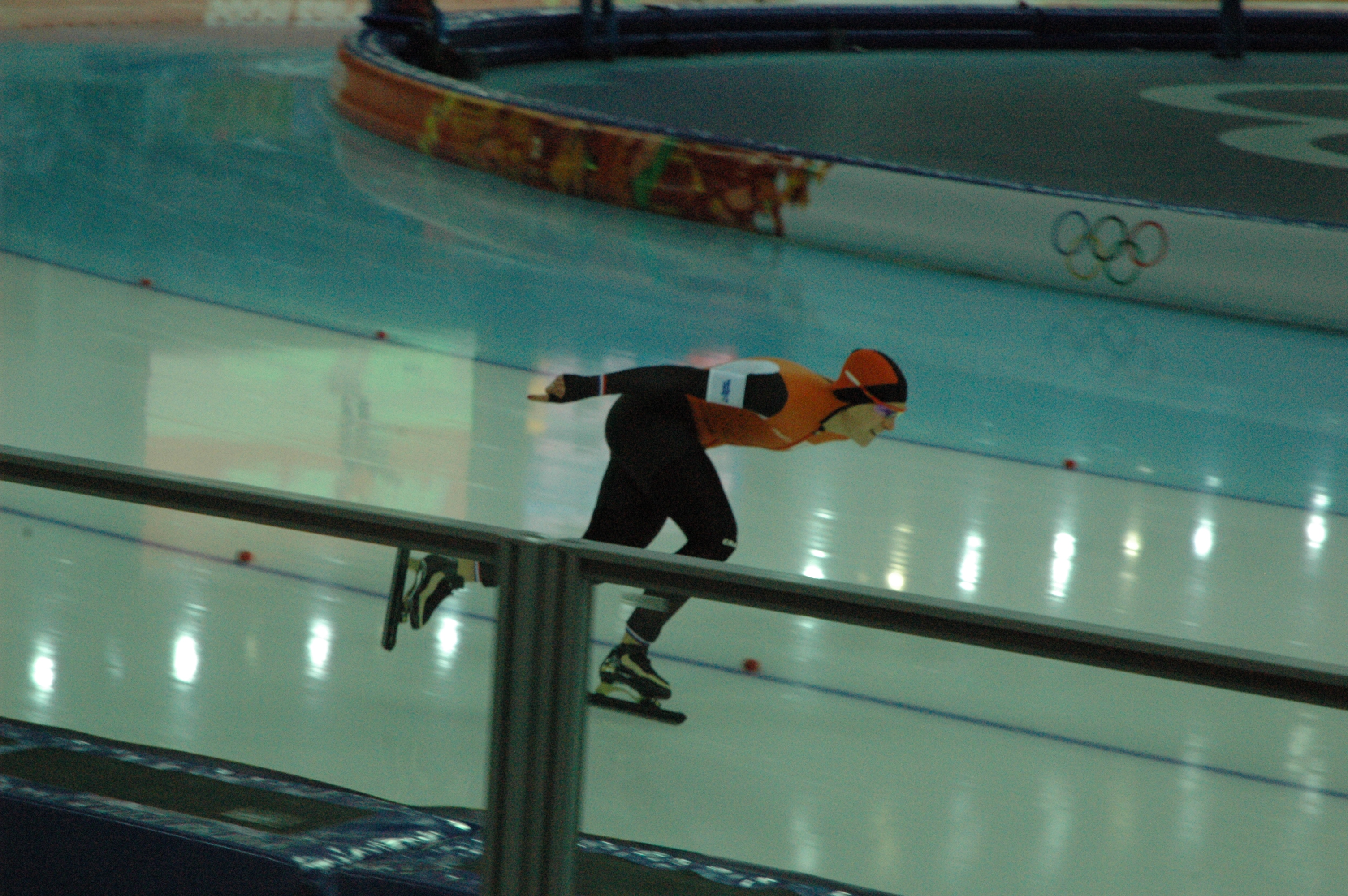 Women's 1500m, 2014 Winter Olympics, Ireen Wüst